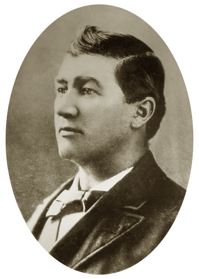 Dennis Kearney (1847-1907), Irish-American political leader, influential in the passing of the Chinese Exclusion Act of 1882.